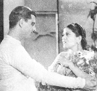 Screen shot of the film Bharosa (1940);Other information